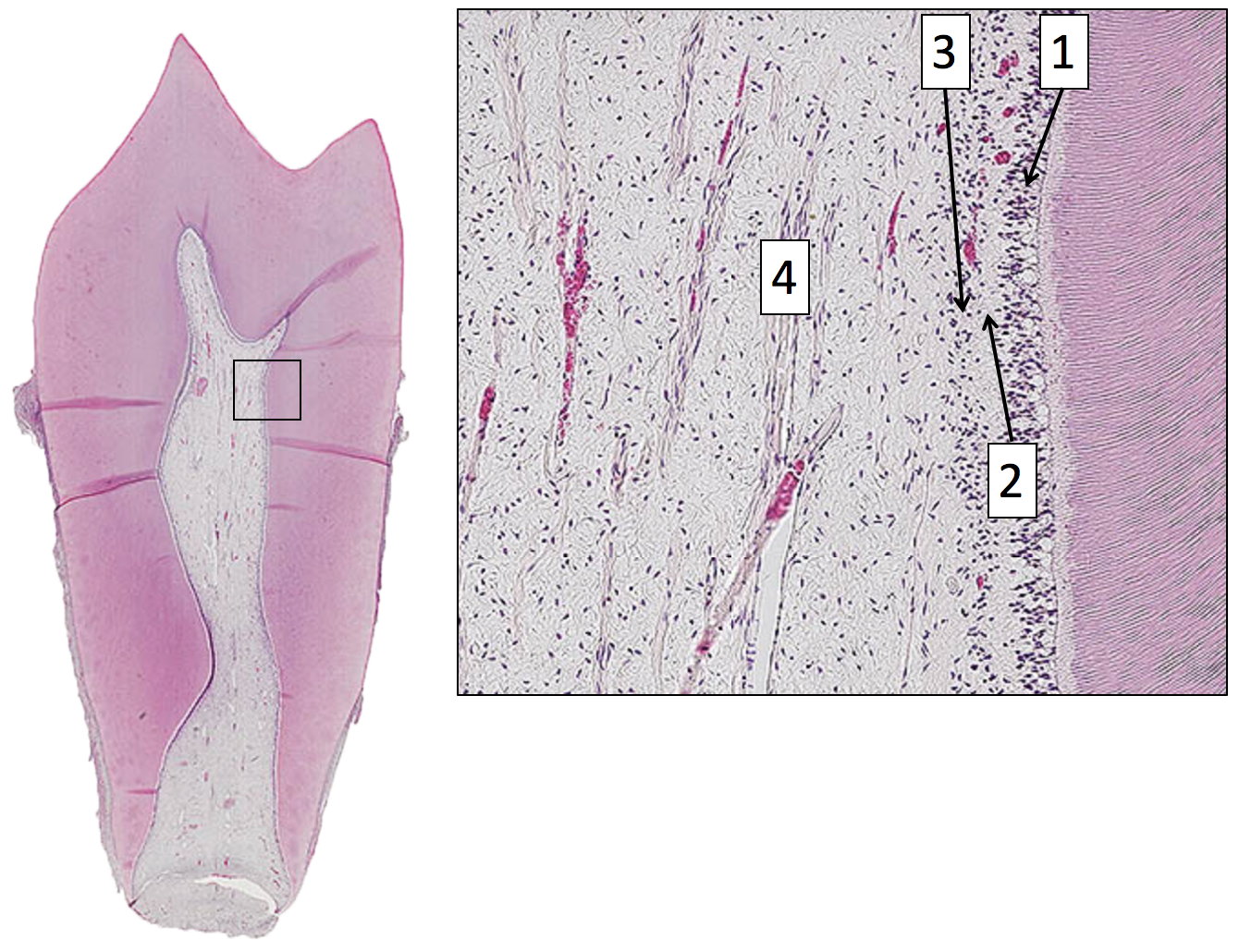 Pulp Histology © School of Dentistry, University of Dundee